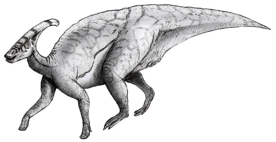 Sketch of the hadrosaurid Parasaurolophus in tetrapod or quadrupedal pose, anatomically correct. Made by Tim Bekaert, 2006. Like other hadrosaurs, Parasaurolophus was facultatively bipedal, i.e. they could alternate between two legs and four, probably preferring a quadrupedal gait while they foraged for food and assuming a bipedal mode for faster running.